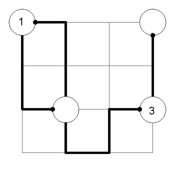 Solved Hotaru Beam grid